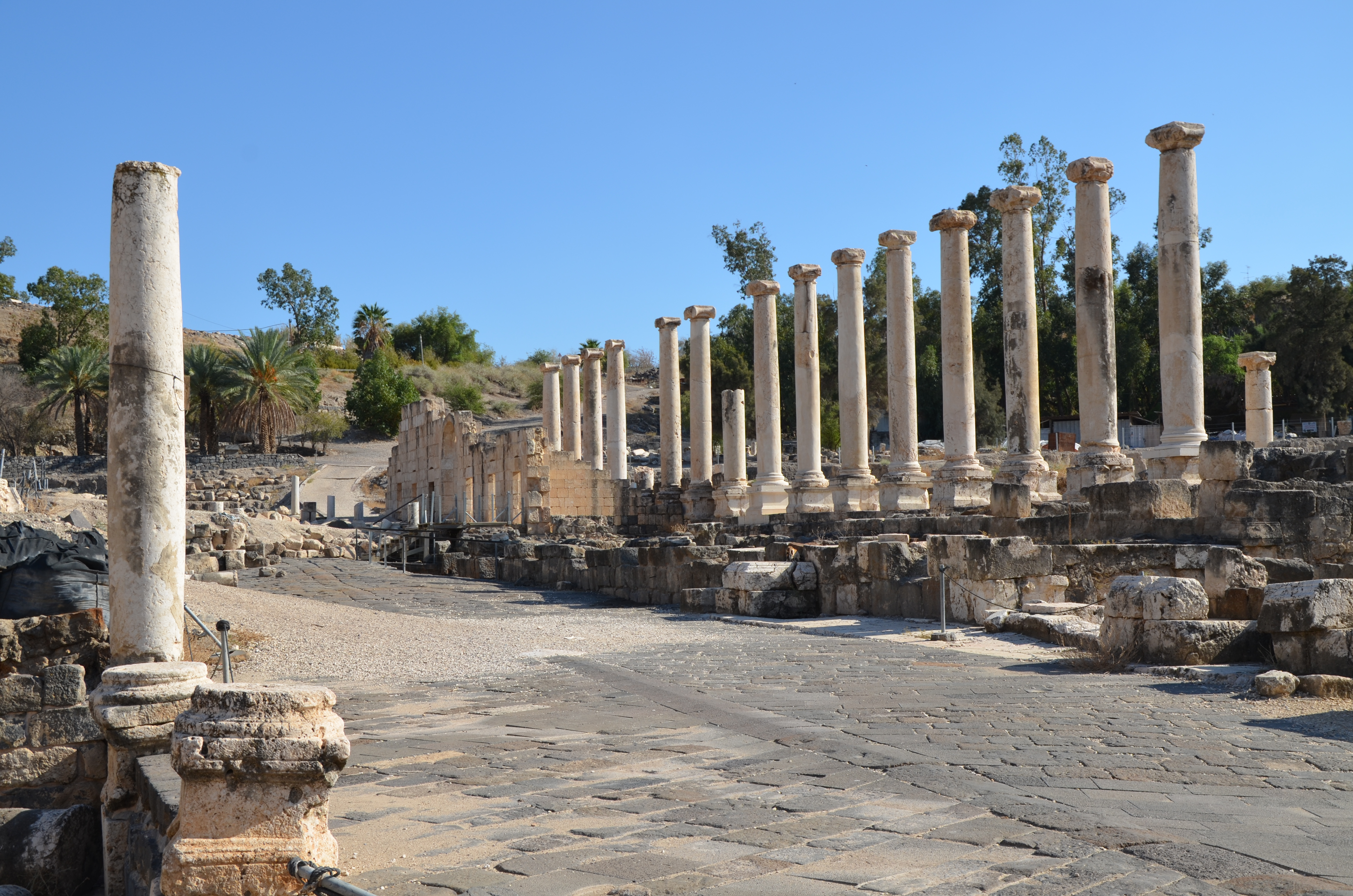 Scythopolis (Beth-She'an), Israel